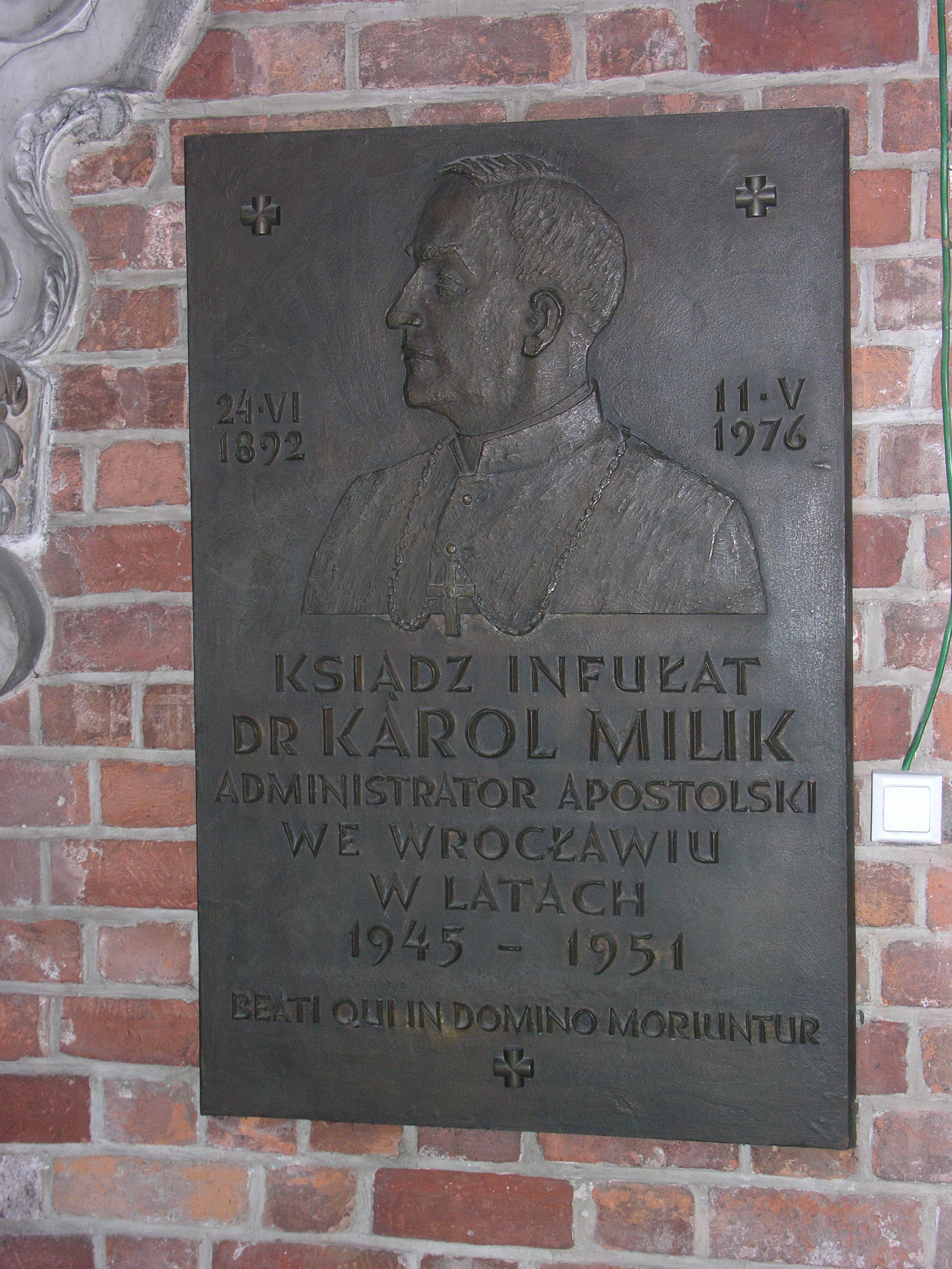 Tablica ku czci Karola Milika w katedrze wrocławskiej